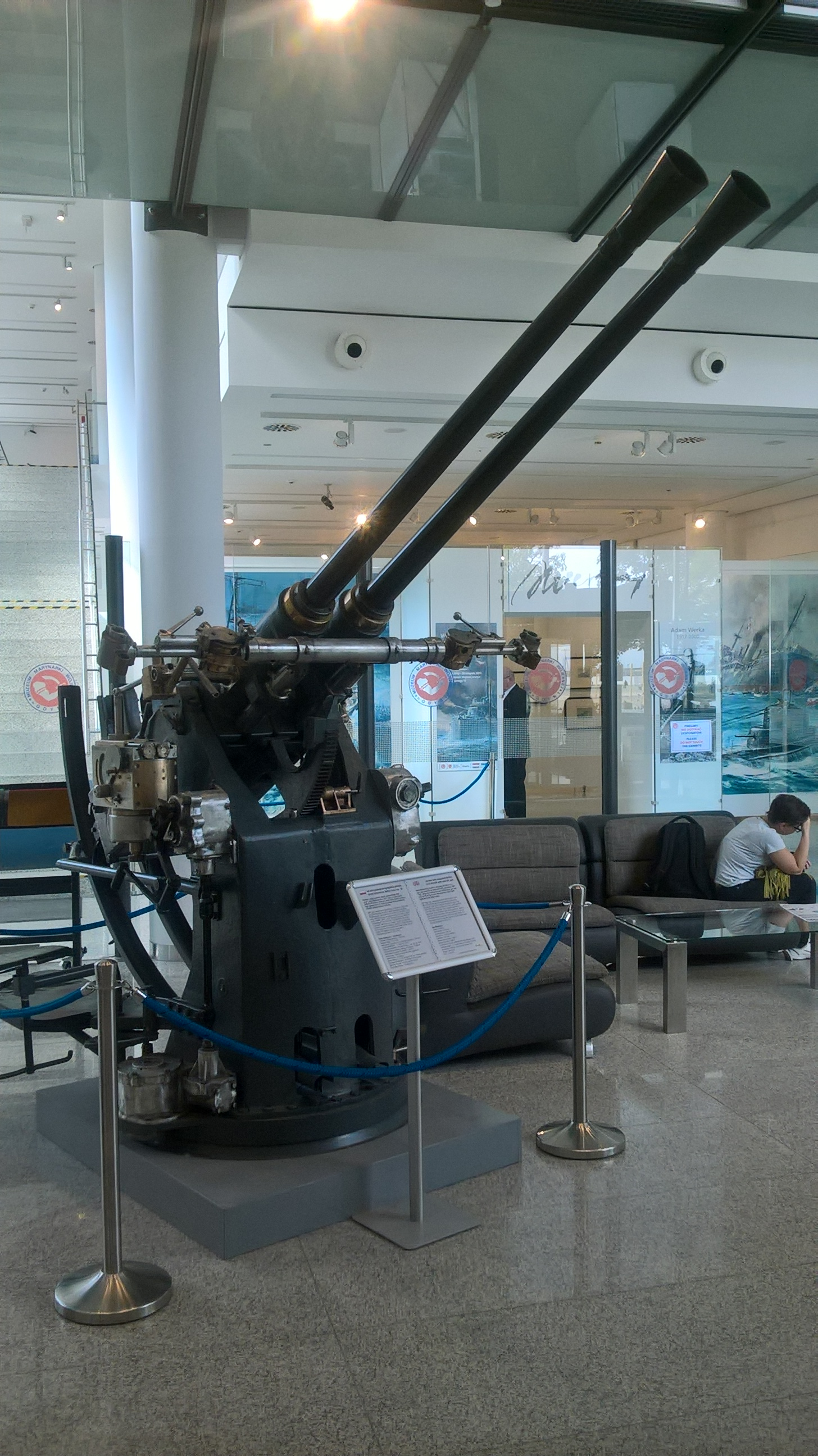 Twin anti aircraft Bofors L/43 design 1937, in exposition of Museum of the Navy in Gdynia